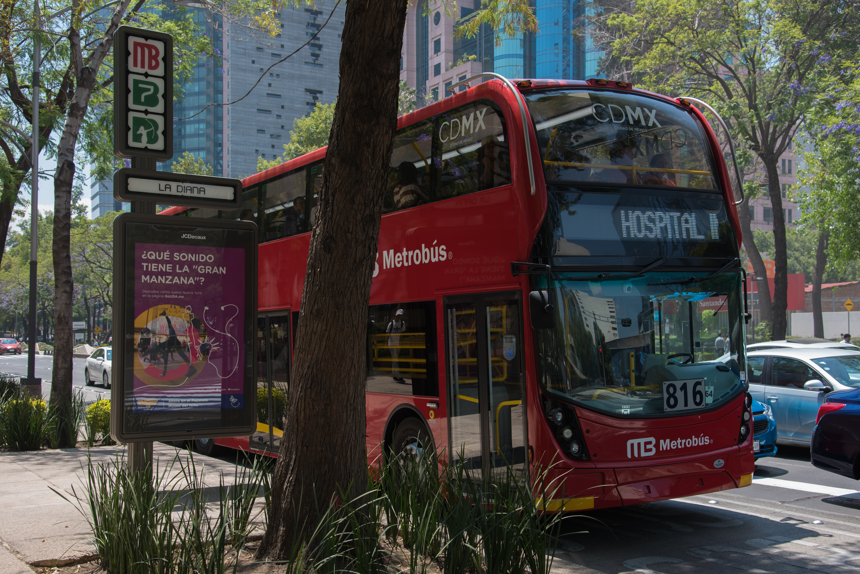 Metrobús at Paseo de la Reforma